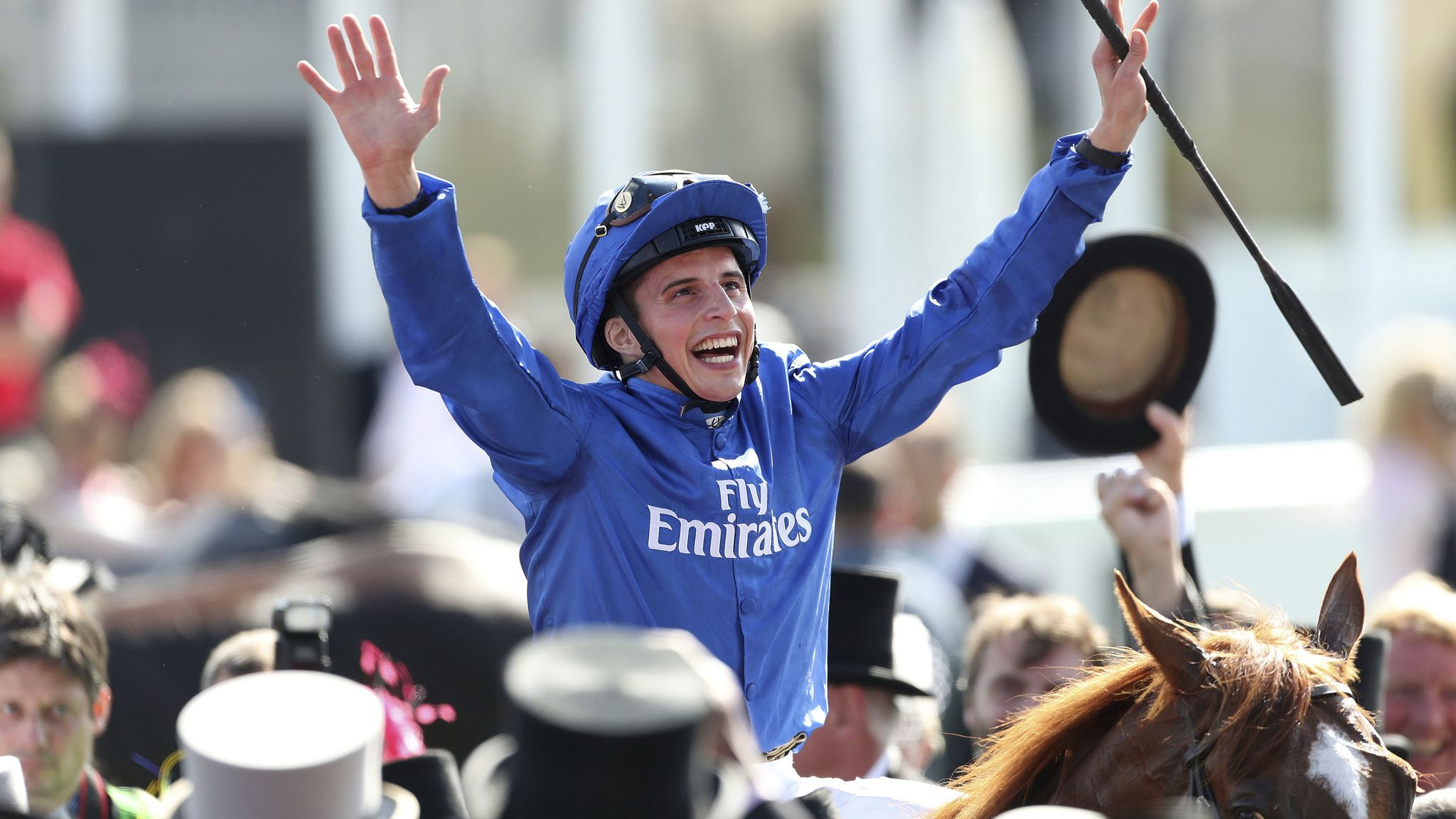 WIlliam Buick celebrates winning the Epsom Derby on Masar